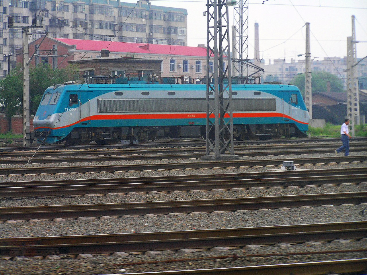 An SS9 electric locomotive at Harbin Railway Station